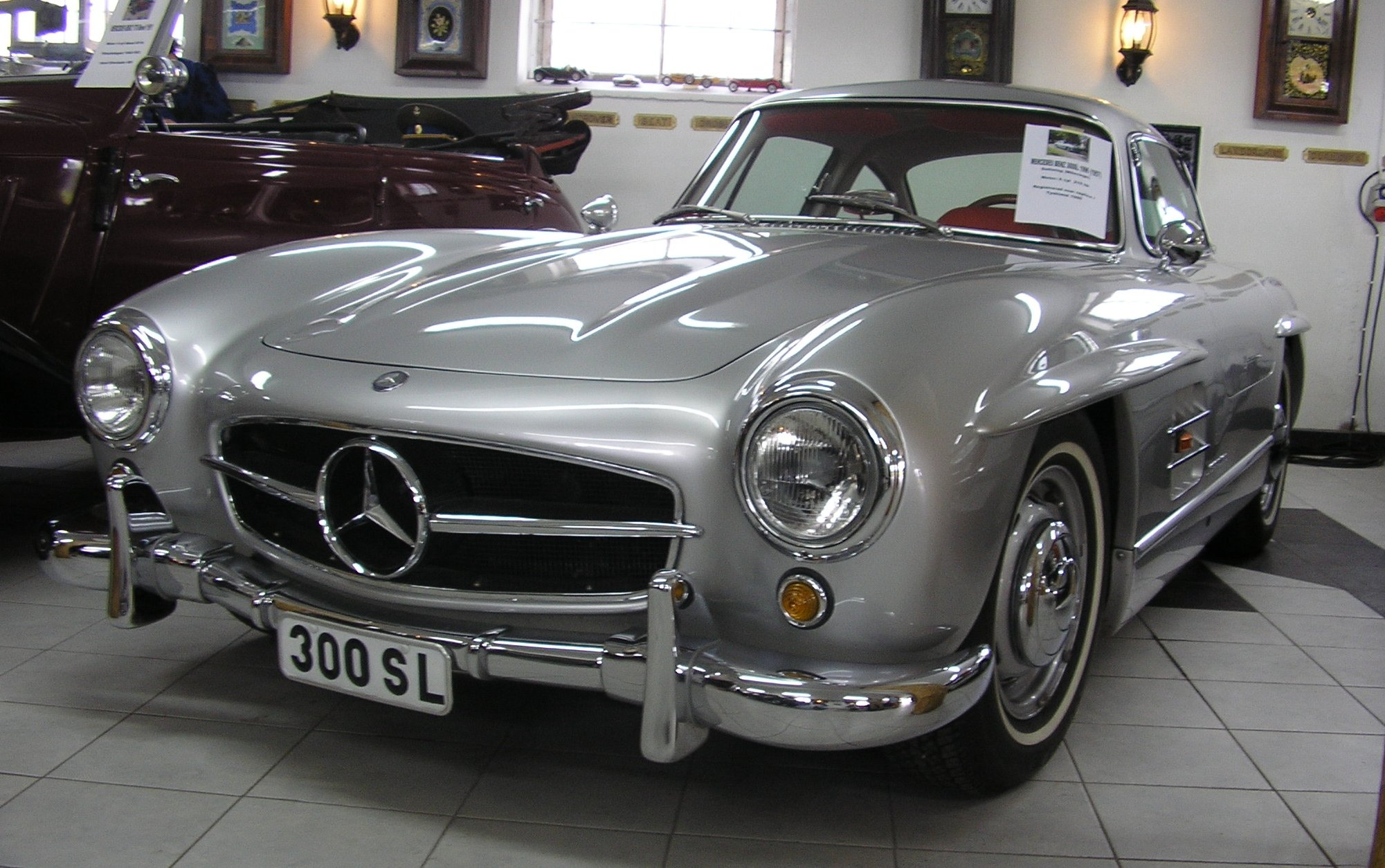 A 1996 replica of a 1957 Mercedes-Benz 300SL